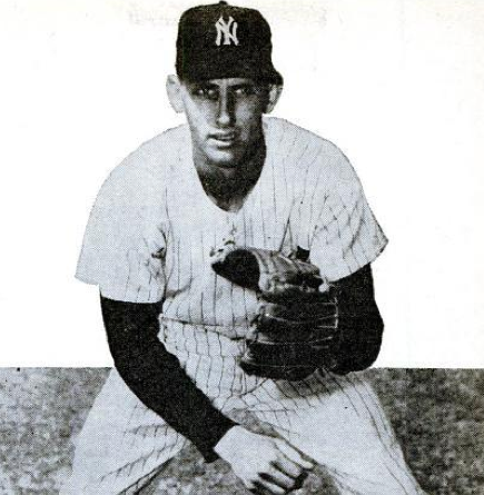 New York Yankees pitcher Jim Coates in a 1960 issue of Baseball Digest.